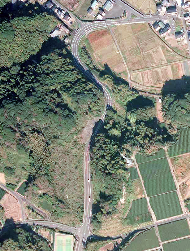 The Geospatial Information Authority took the aerial photograph in Kakegawa City, Shizuoka Prefecture on November 20, 2012.